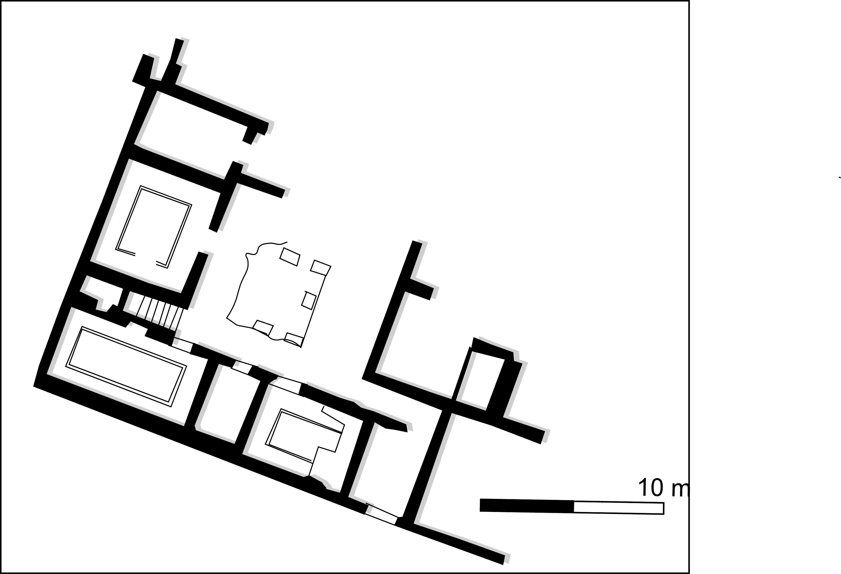 Solunto, Casa delle ghirlande, plan